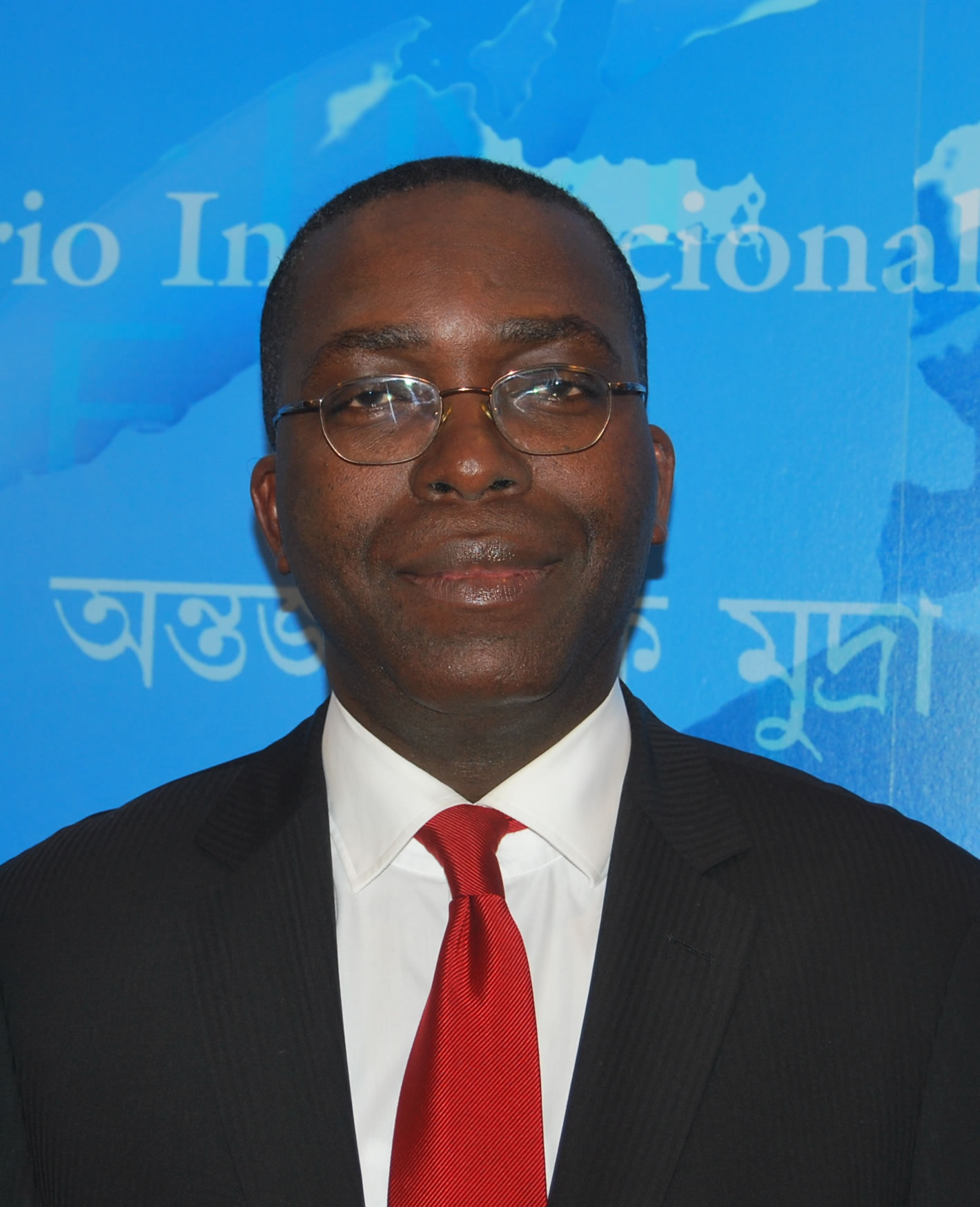 Matata Ponyo Mapon, Minister of Finance of the Democratic Republic of Congo, at the annual meetings of IMF and World Bank in Washington, September 22, 2011.